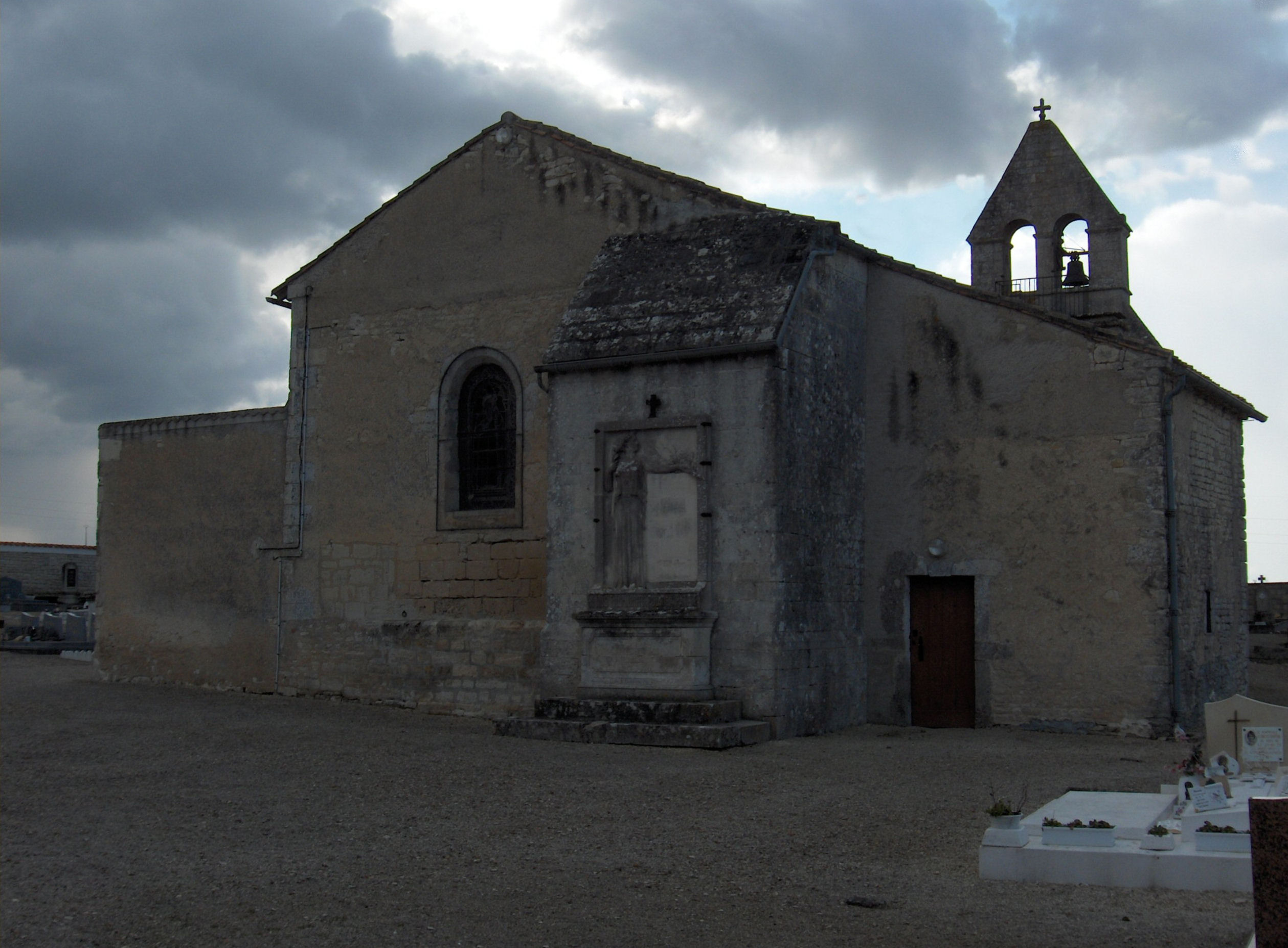 Church of Oradour - Charente - France - Europa